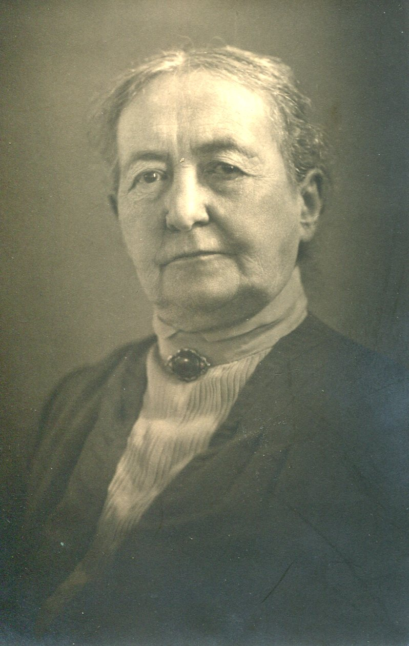 Olga Friedemann (1857 - 1935) was a Women's Rights Activist in Koenigsberg, East Prussia todays Kaliningrad. She created first of all the profession "Master of Housekeeping" for women in 1926 in the society "Königsberger Hausfrauenbund"